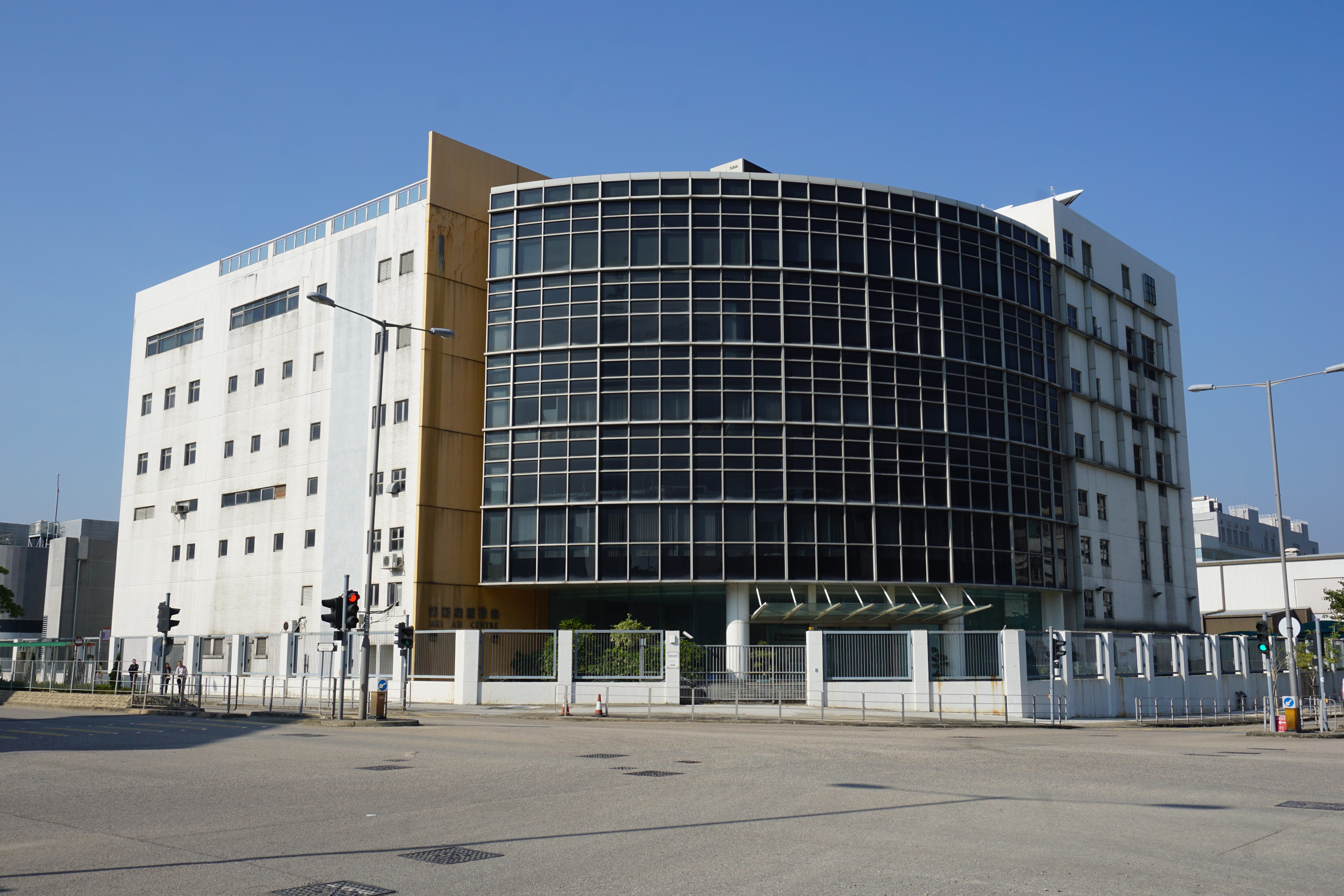 Mei Ah Centre in Tai Chik Sha, Hong Kong.